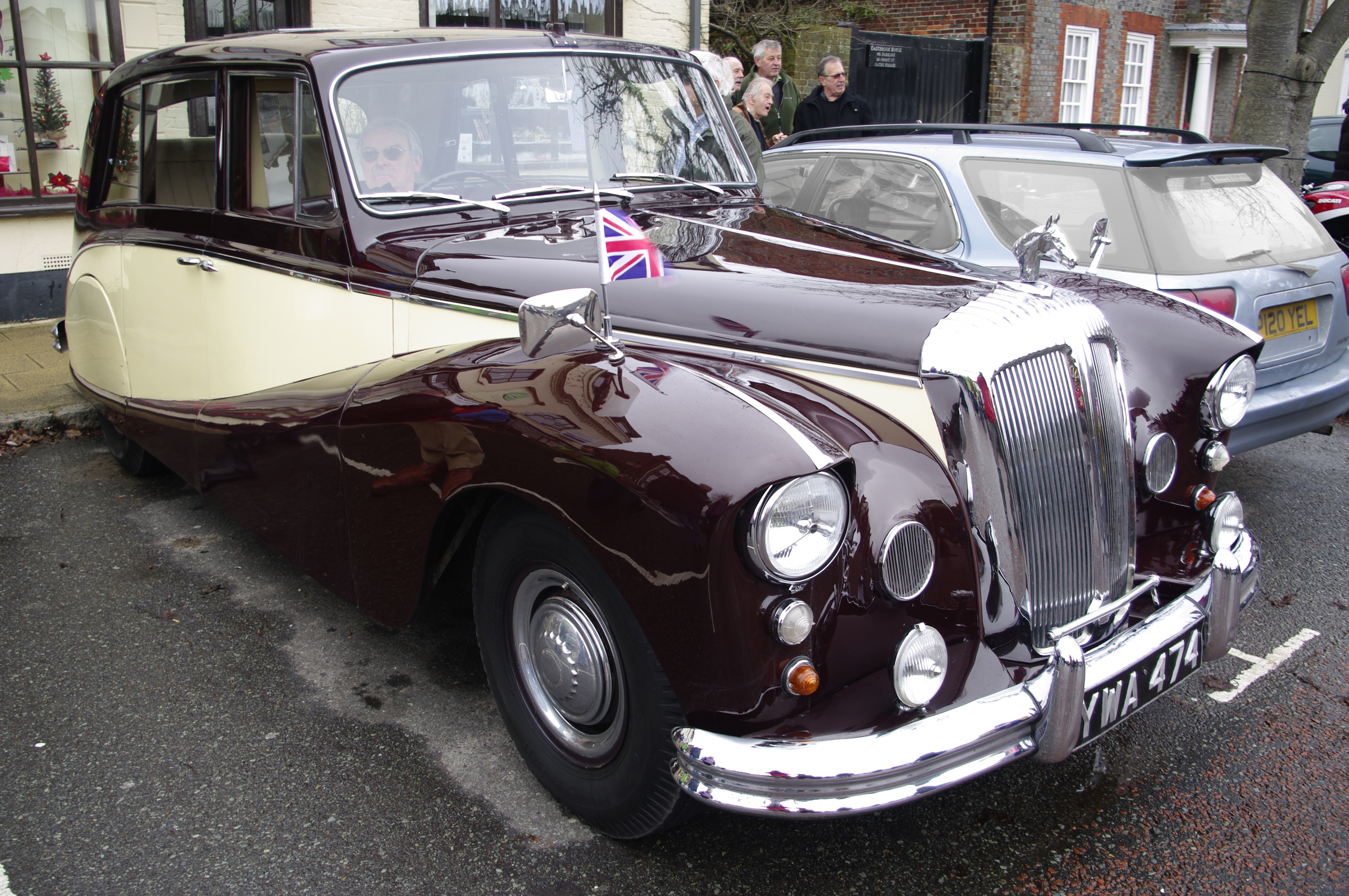 1957 Daimler limousine (DK400) with 4.6 litre six-cylinder engine, body by Hooper File:Daimler_DK400_RSP5533.jpg Photoshopped to: remove foot and paper in window, change driver, fog up windows of next car all to minimise distractions